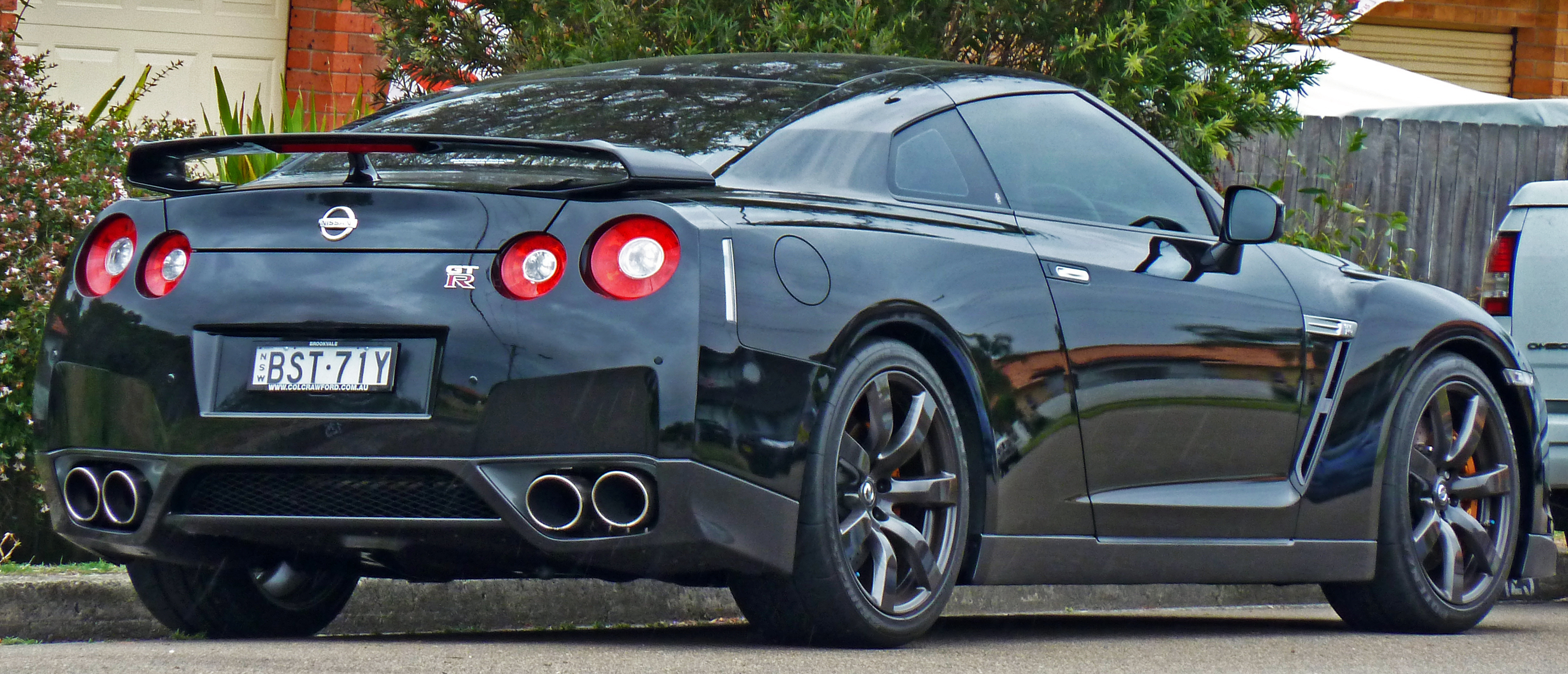 2009–2010 Nissan GT-R (R35) coupe. Photographed in Sans Souci, New South Wales, Australia.